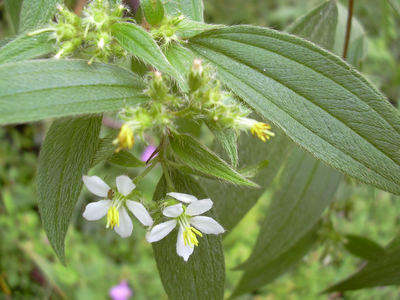 Tibouchina longifolia (flowers). Location: Hawaii, Hilo